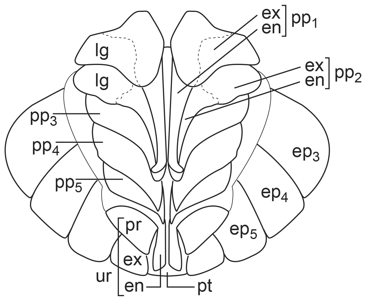 Armadillidium vulgare, male pleon, ventral viewen endopoditeep epimeronex exopoditelg lungpp pleopodpr protopoditept pleotelsonur uropod